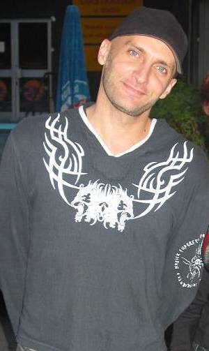 Johan Edlund from sweden band Timat